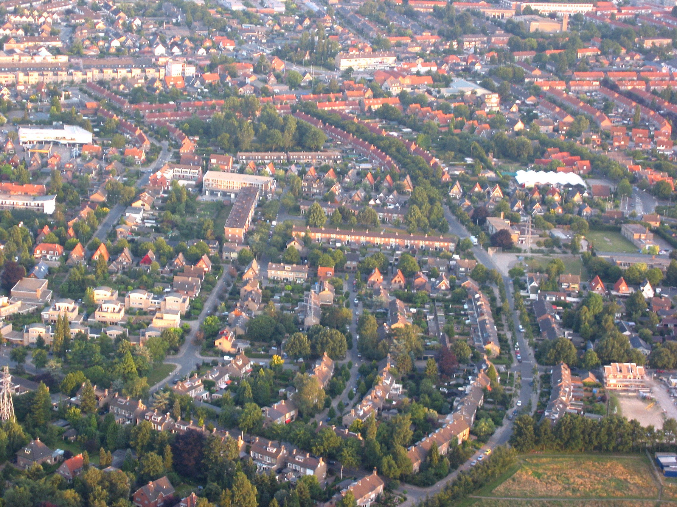 Picture taken by myself: Ede, the Netherlands